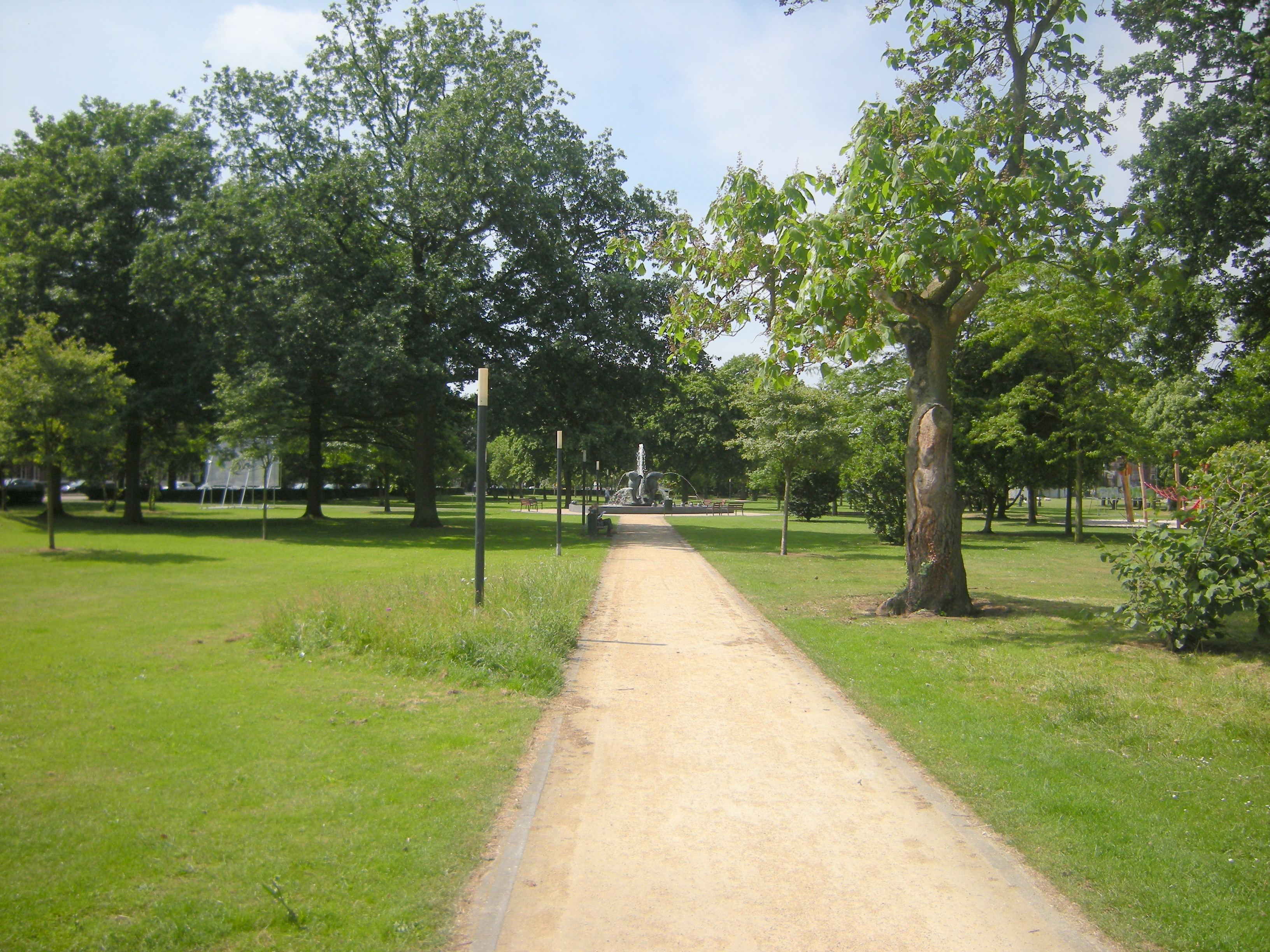 Julianapark Venlo